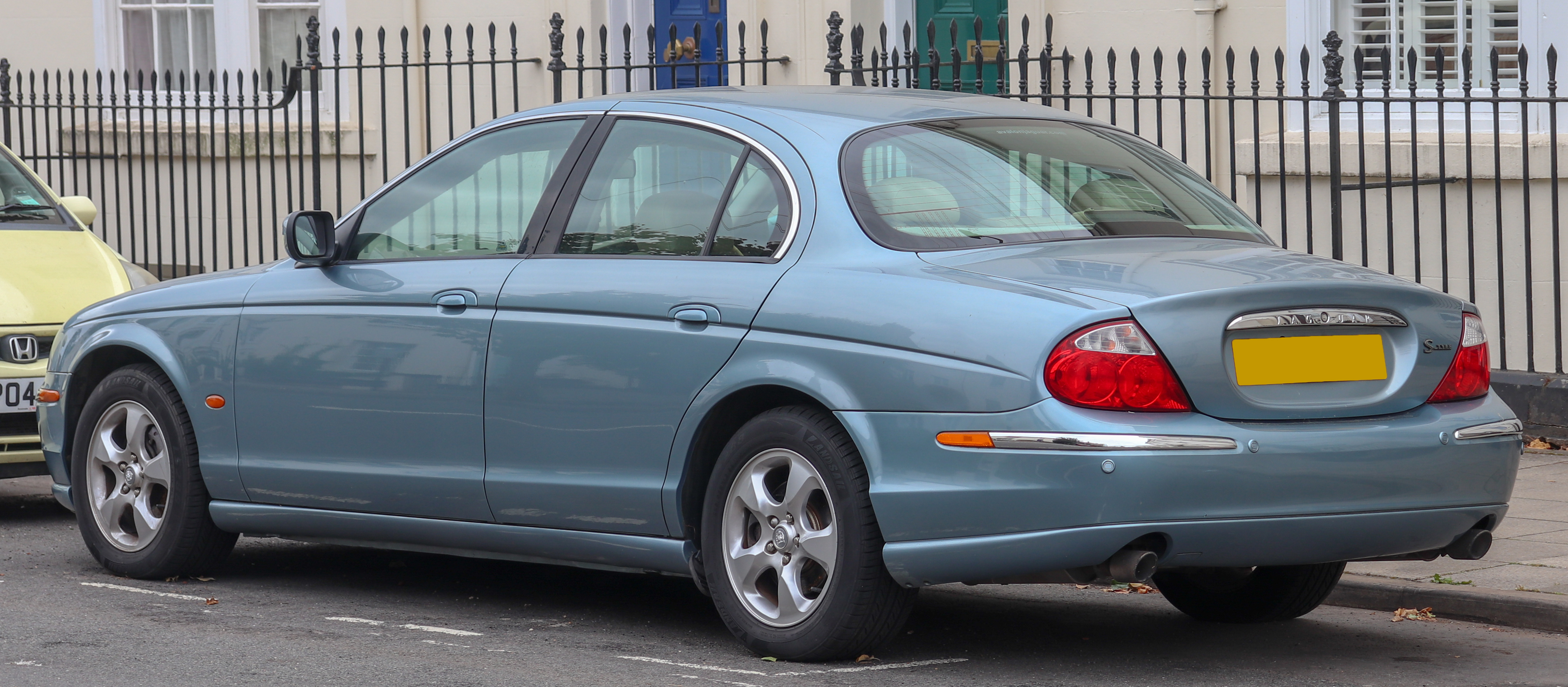 2002 Jaguar S-Type V6 SE Automatic 3.0 Rear Taken in Leamington Spa